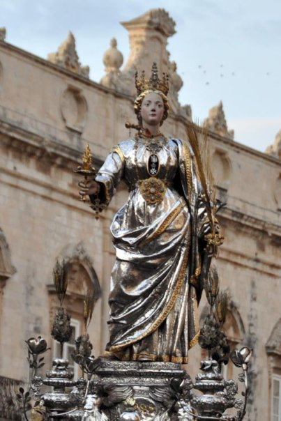 Il simulacro argenteo di Santa Lucia a Siracusa